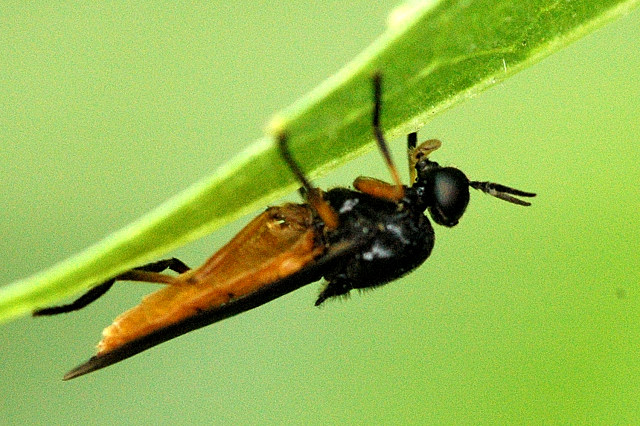 Picture taken in Commanster, Belgian High Ardennes . Species: Beris clavipes